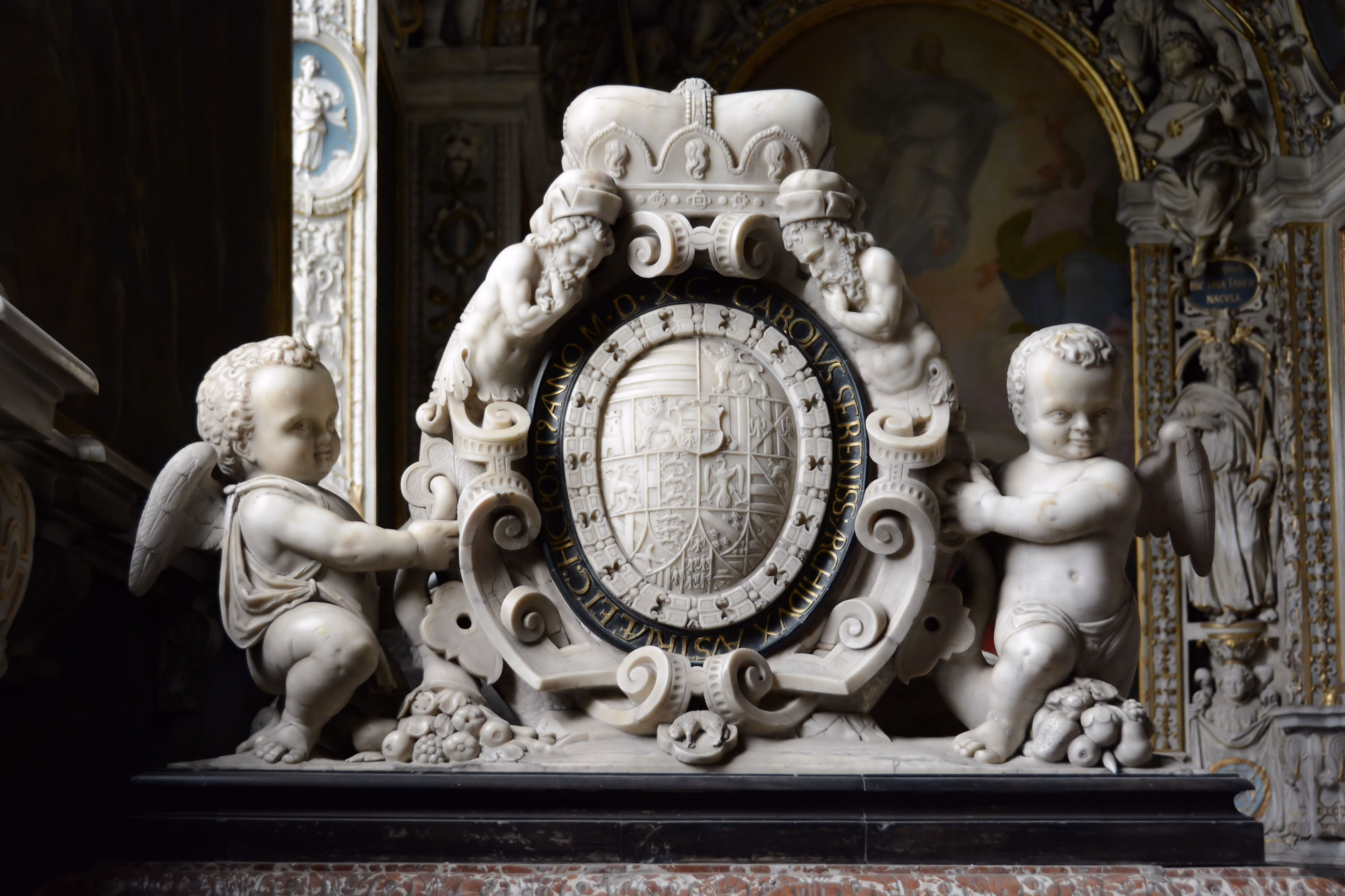 Seckau basilica, mausoleum, Putti on cenotaph holding Charles II, Archduke of Austria coat of arms (view from entry)